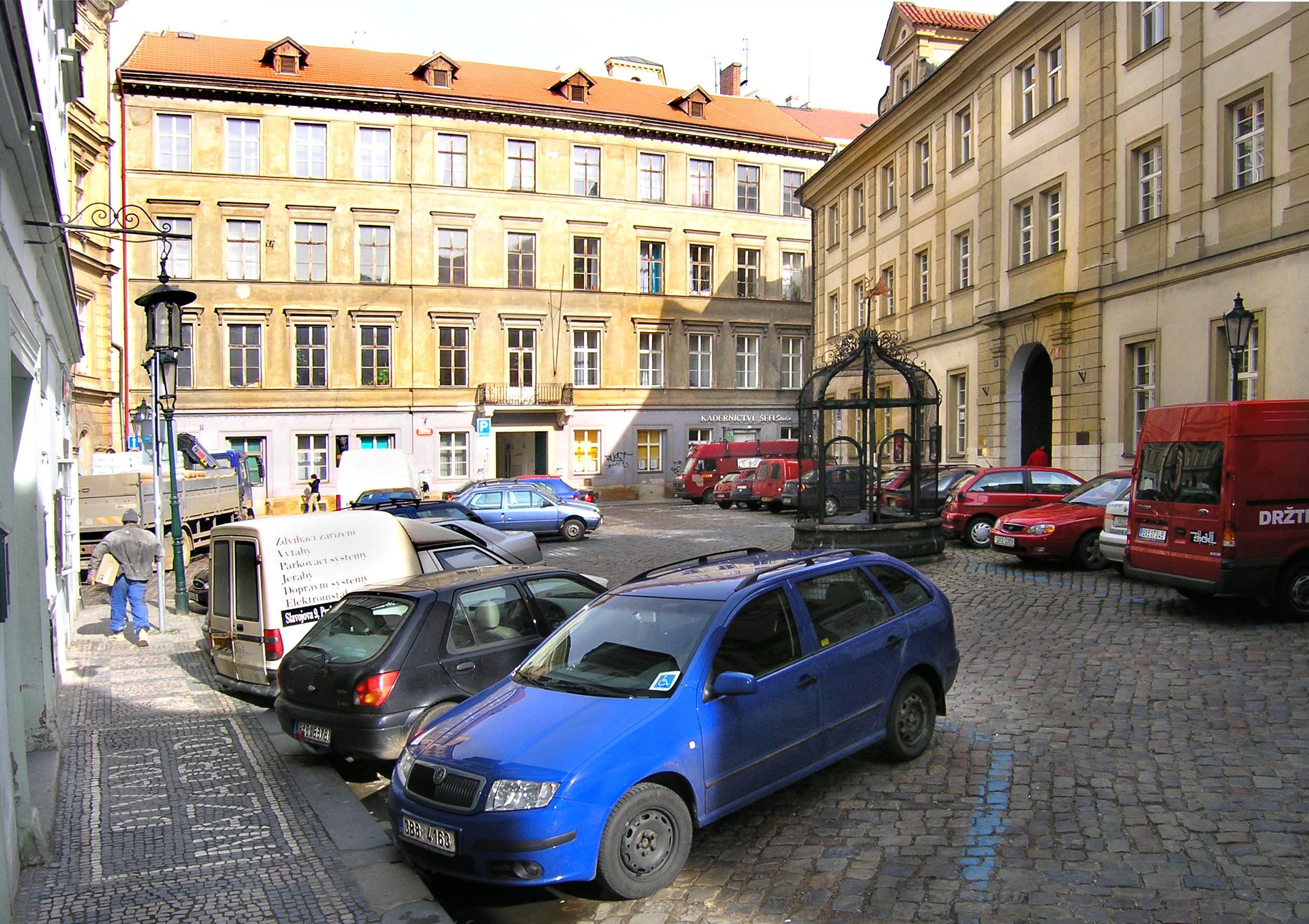 Anenské square, Prague